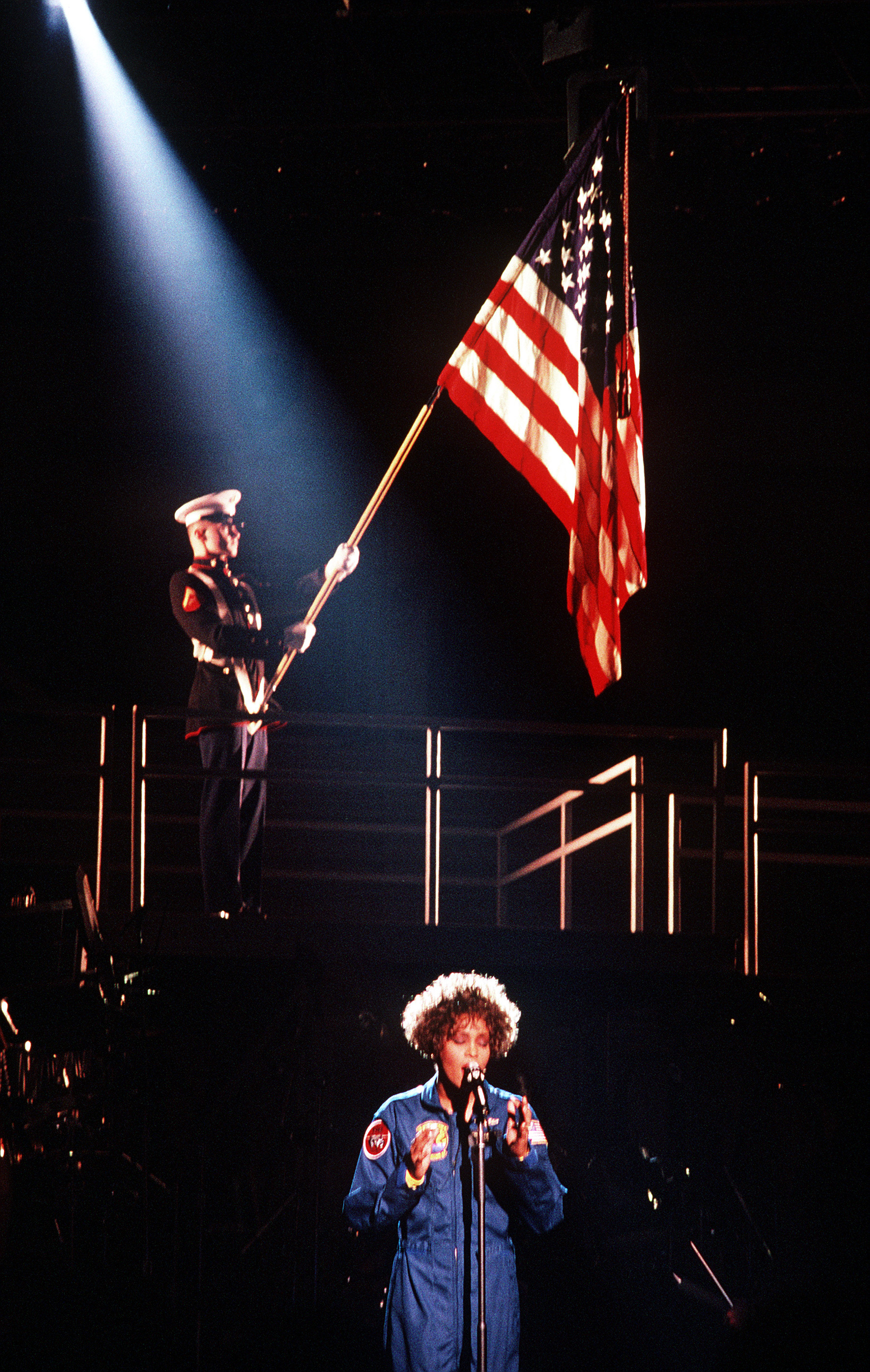 Whitney Houston performing "The Star-Spangled Banner" during the HBO-televised concert "Welcome Home Heroes with Whitney Houston" honoring the troops, who took part in Operation Desert Storm, their families, and military and government dignitaries.